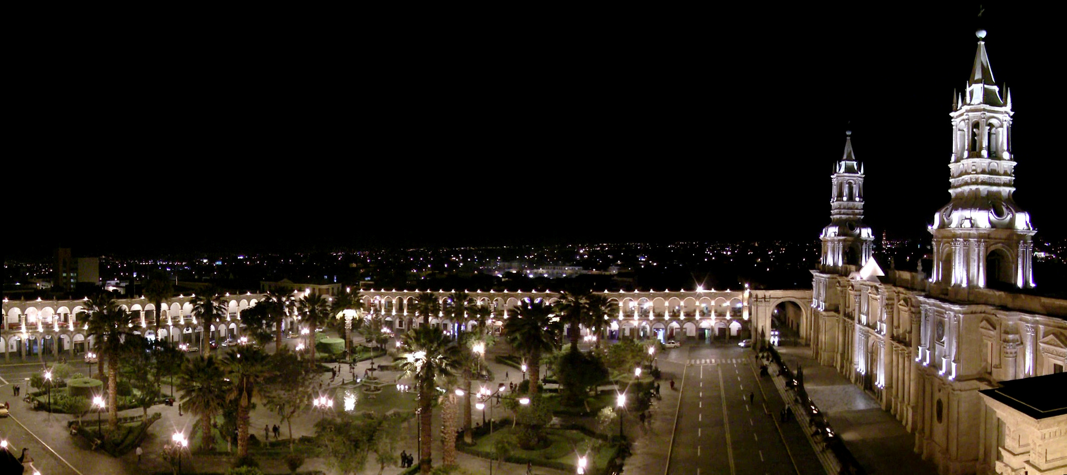 Plaza de Armas of Arequipa view of the Portal of the Municipality, the Portal of St. Augustine and the Basilica Cathedral of Arequipa (from left to right).